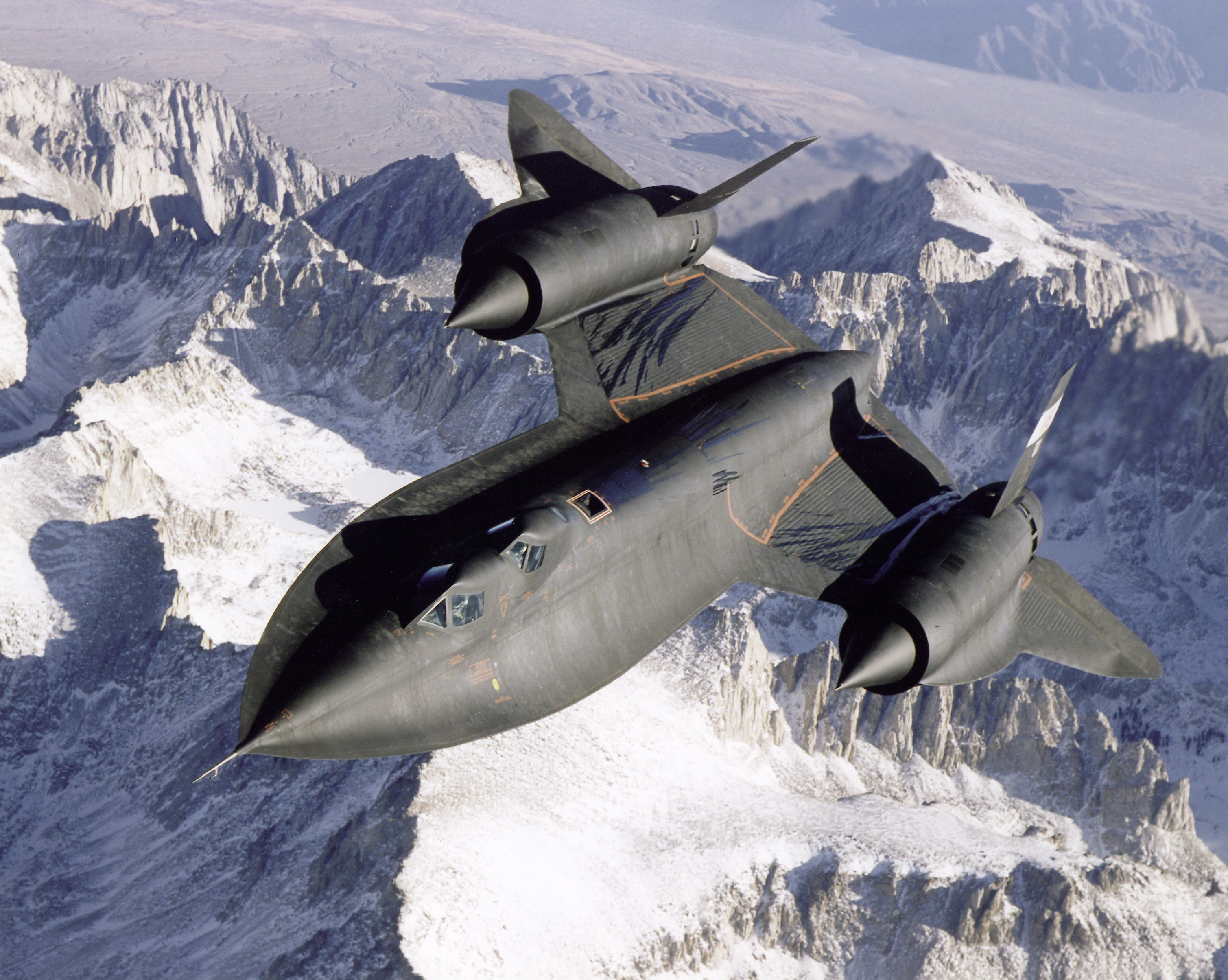 Dryden's SR-71B, NASA 831, slices across the snowy southern Sierra Nevada Mountains of California after being refueled by an Air Force Flight Test Center tanker during a recent flight. The Mach 3 aircraft are being flown by the Dryden Flight Research Center, Edwards, California as testbeds for high-speed, high-altitude aeronautical research. Capable of flying more than 2200 mph and at altitudes of over 85,000 feet, they are excellent platforms for research and experiments in aerodynamics, propulsion, structures, thermal protection materials, atmospheric studies, and sonic boom characterization.